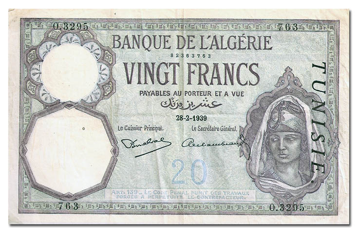 20 Algerian francs 1939 obverse side